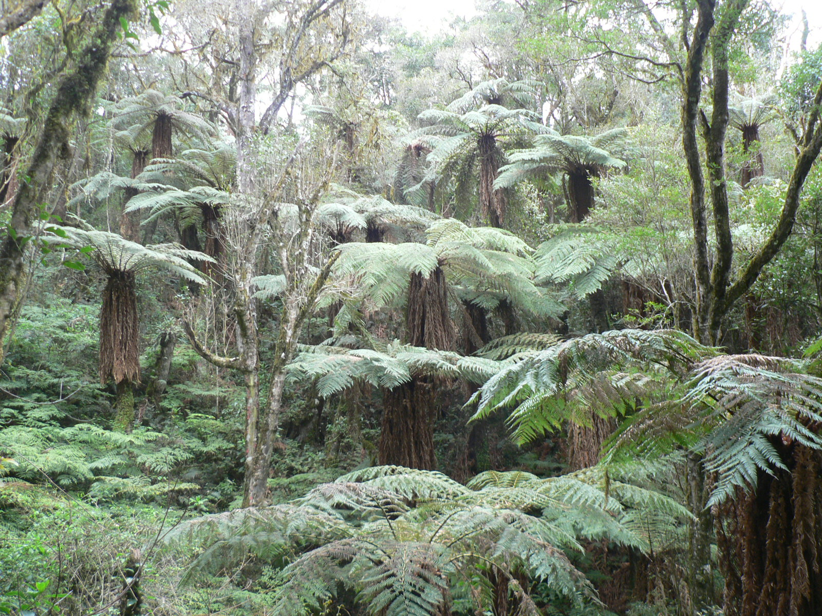 Tree ferns in the Amboró National Park, Santa Cruz, Bolivia.